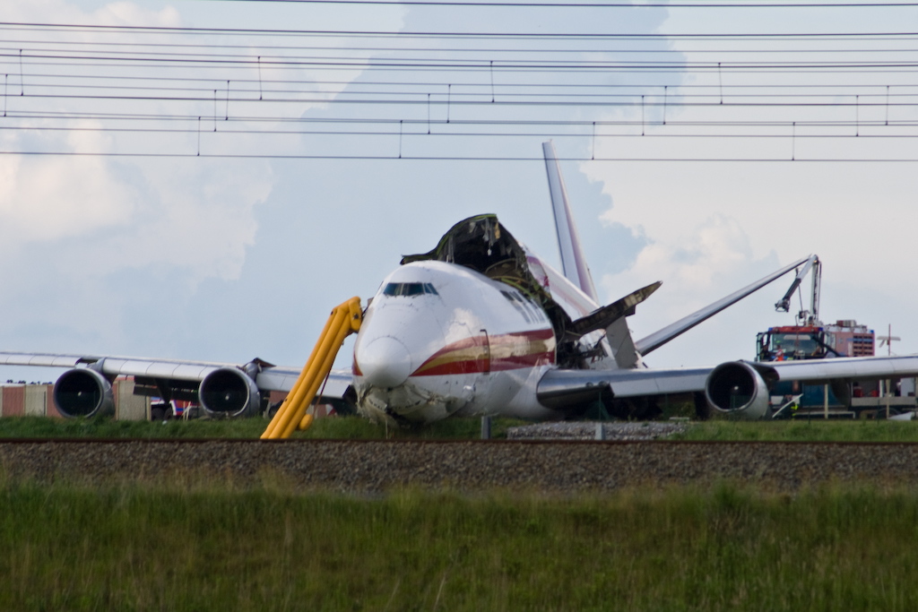 On 25 May 2008, a Boeing 747-200F (N704CK) operated by Kalitta Air, overran the runway, crashed into a field and split in two. The five people on board were taken to hospital with four receiving minor injuries.